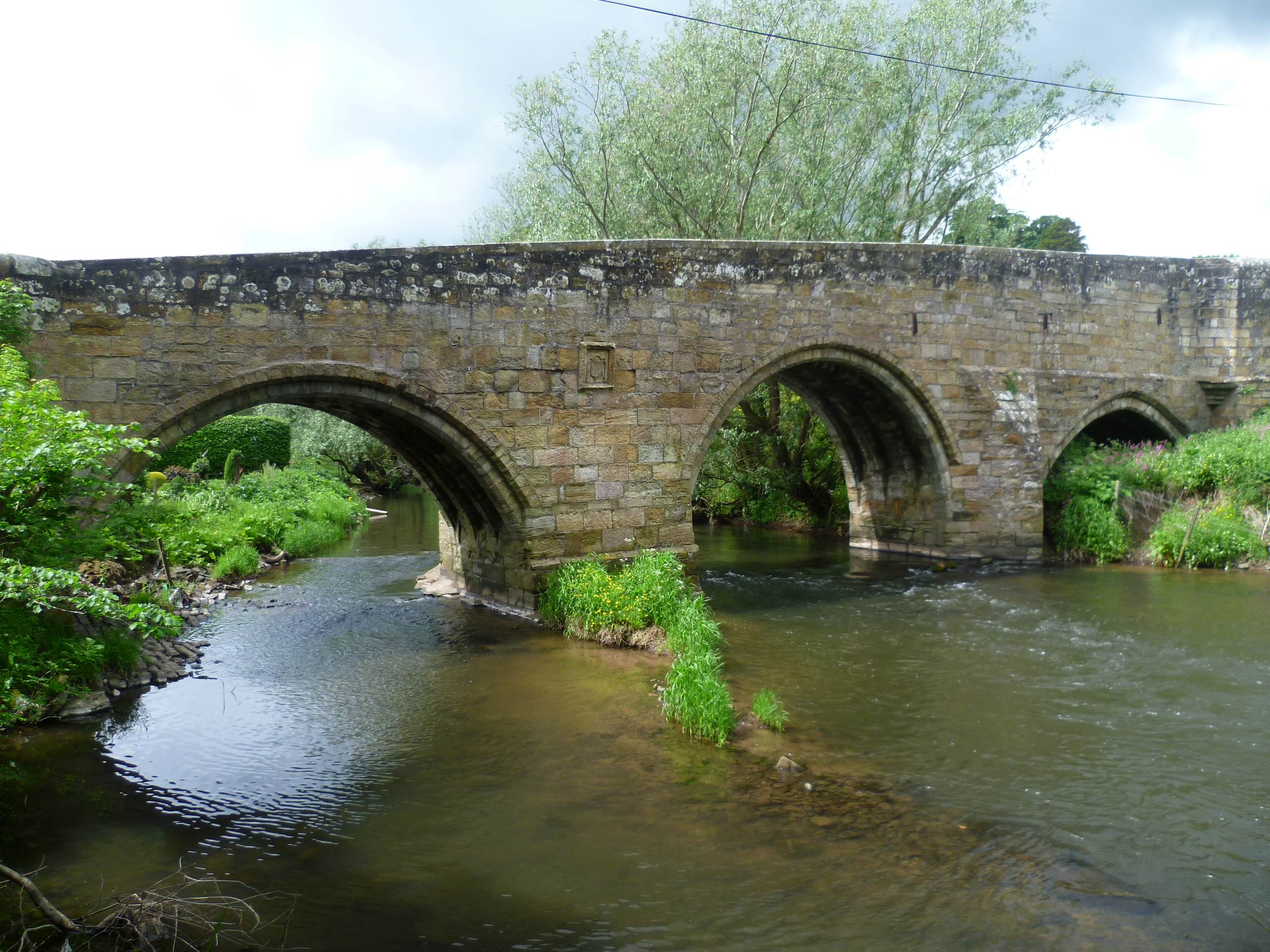 Dairsie Brig over the River Eden, near Cupar, Fife